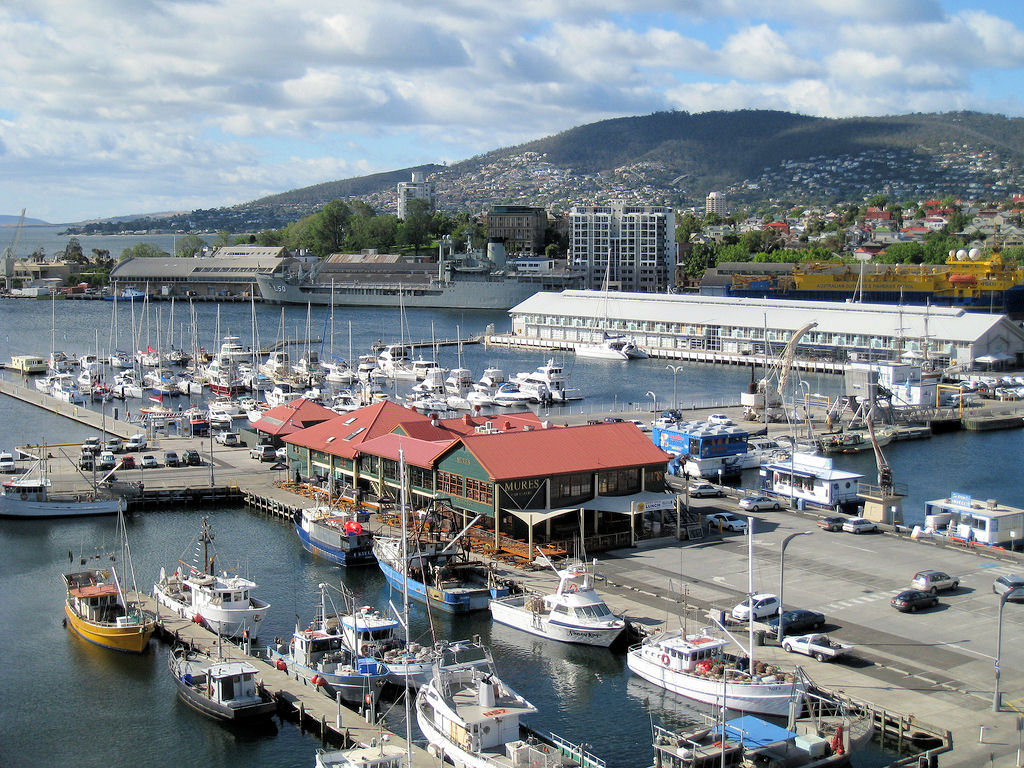 Hobart Wharf